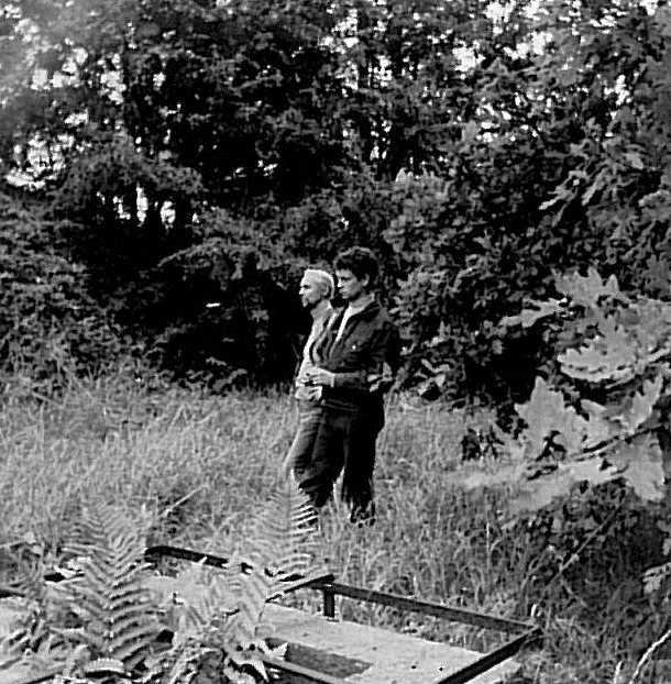 Kapitein Zeppos (Senne Rouffaer) en zijn assistent Ben Kurrel (Raymond Bossaerts) wachtend op de volgende opname. 1968